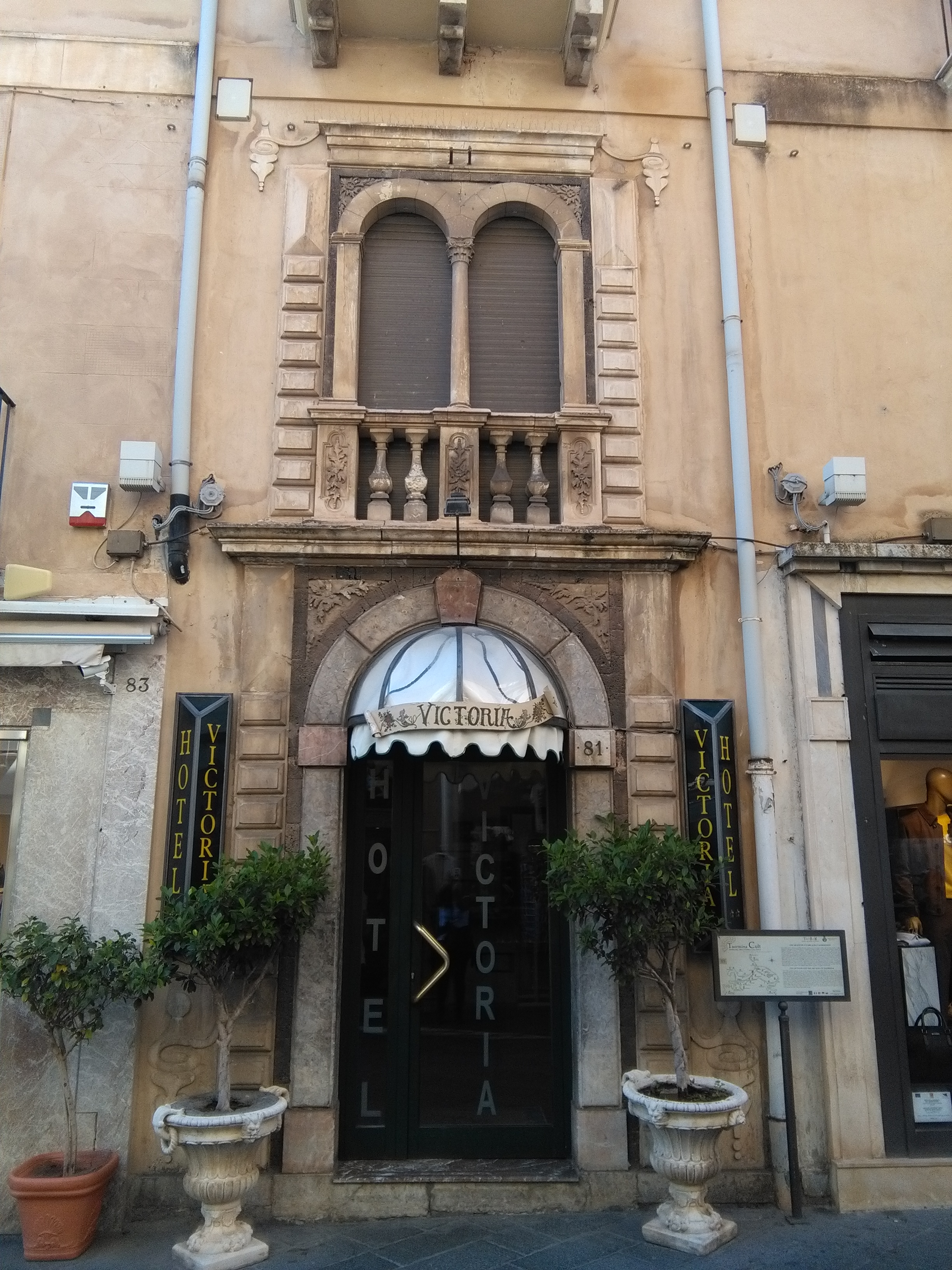 Hotel Victoria Corso Umberto 81 where Oscar Wilde stayed in 1898